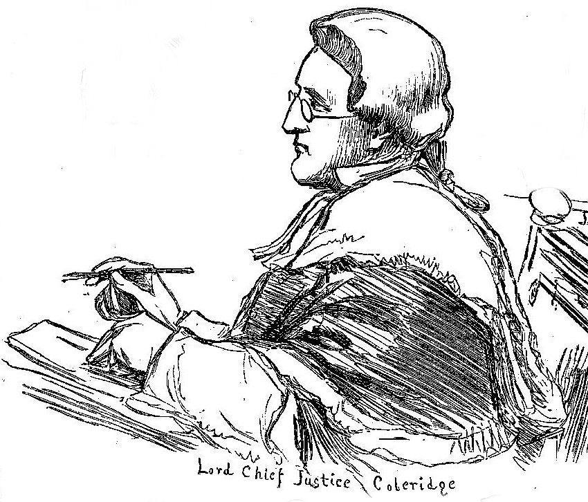 Lord Chief Justice Coleridge in the Illustrated London News of November 12, 1881